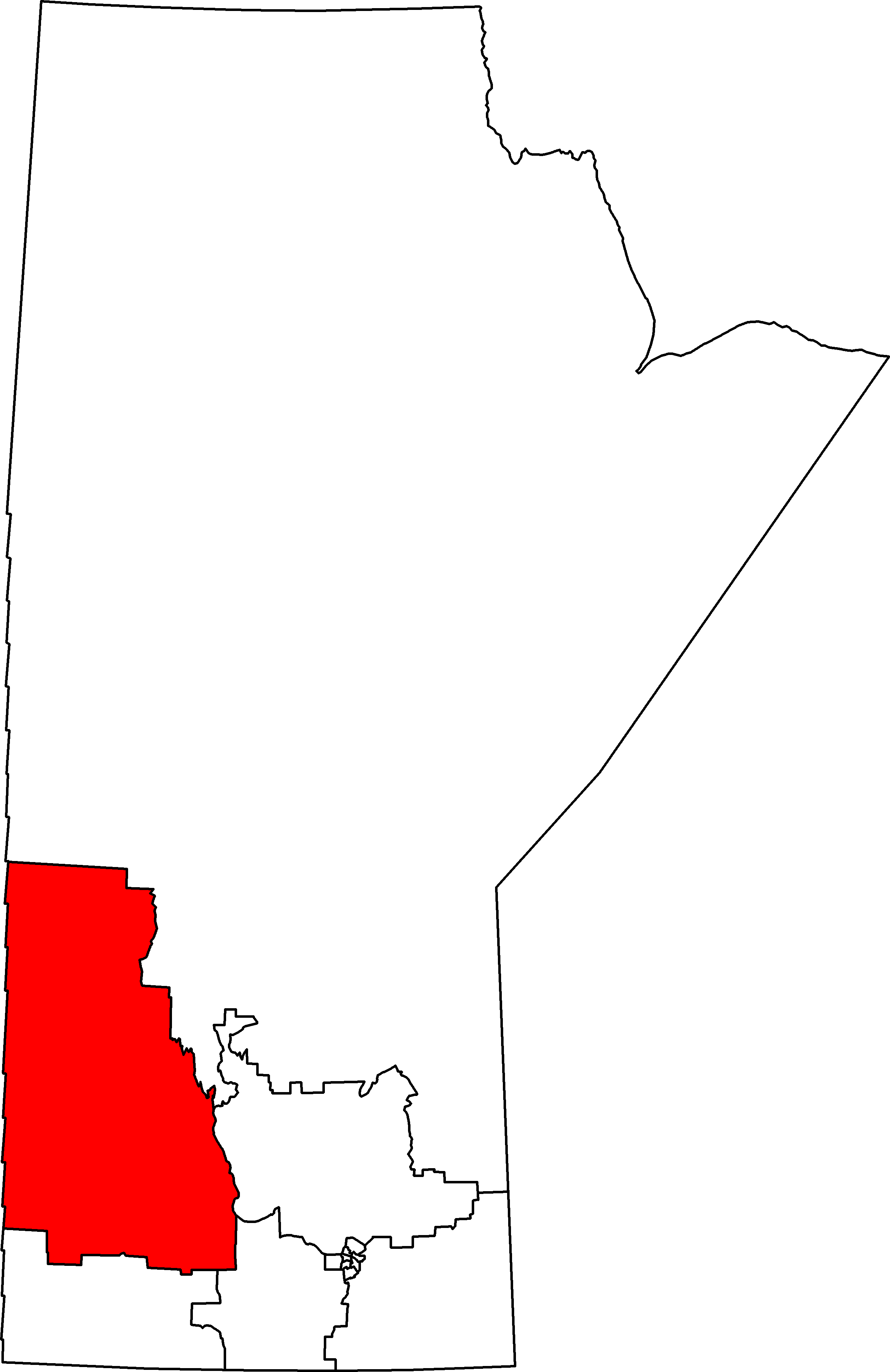 Federal Electoral District in Manitoba, Canada as of the 2013 Representation Order.